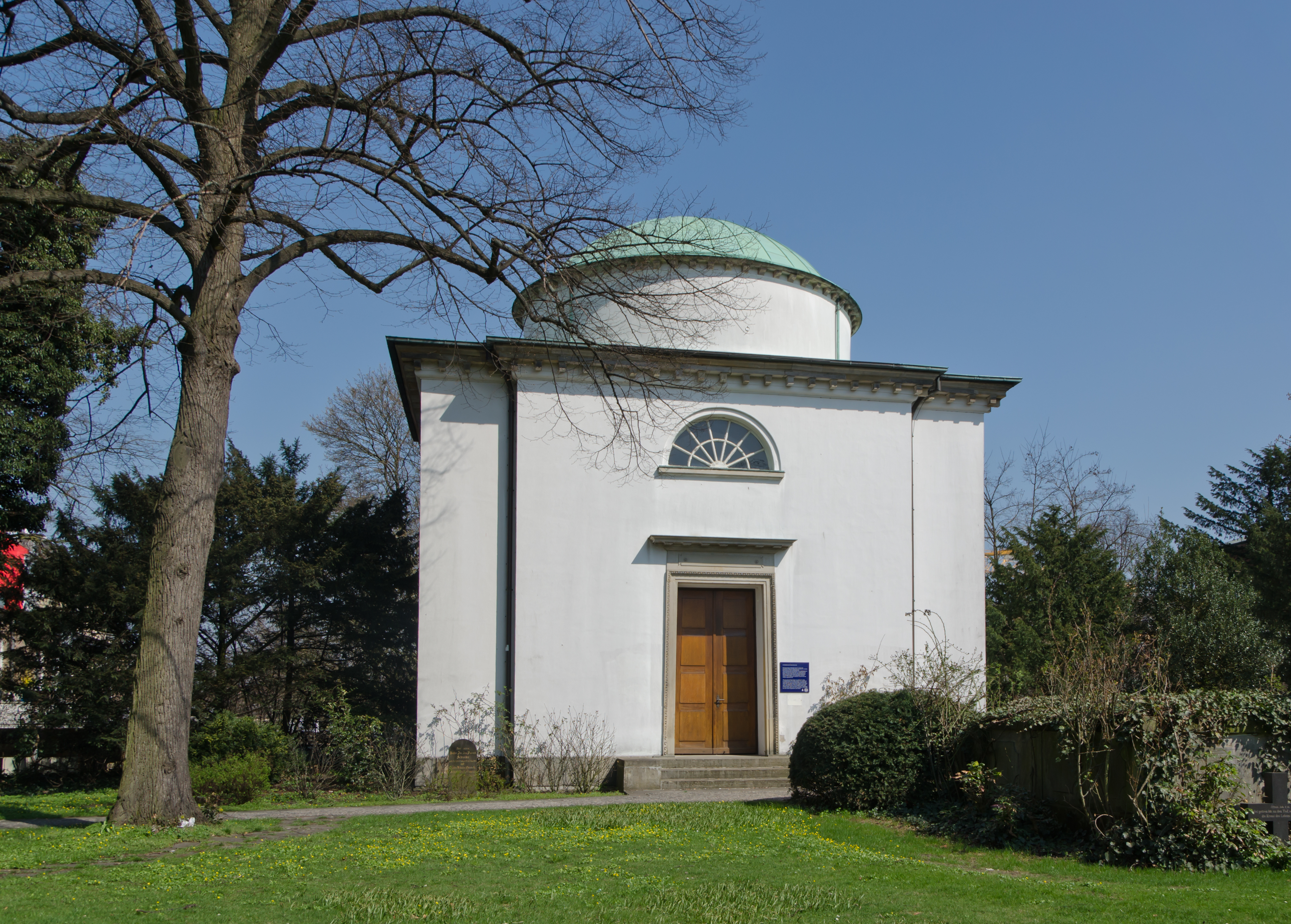 Schimmelmann-Mausoleum This is a photograph of an architectural monument.